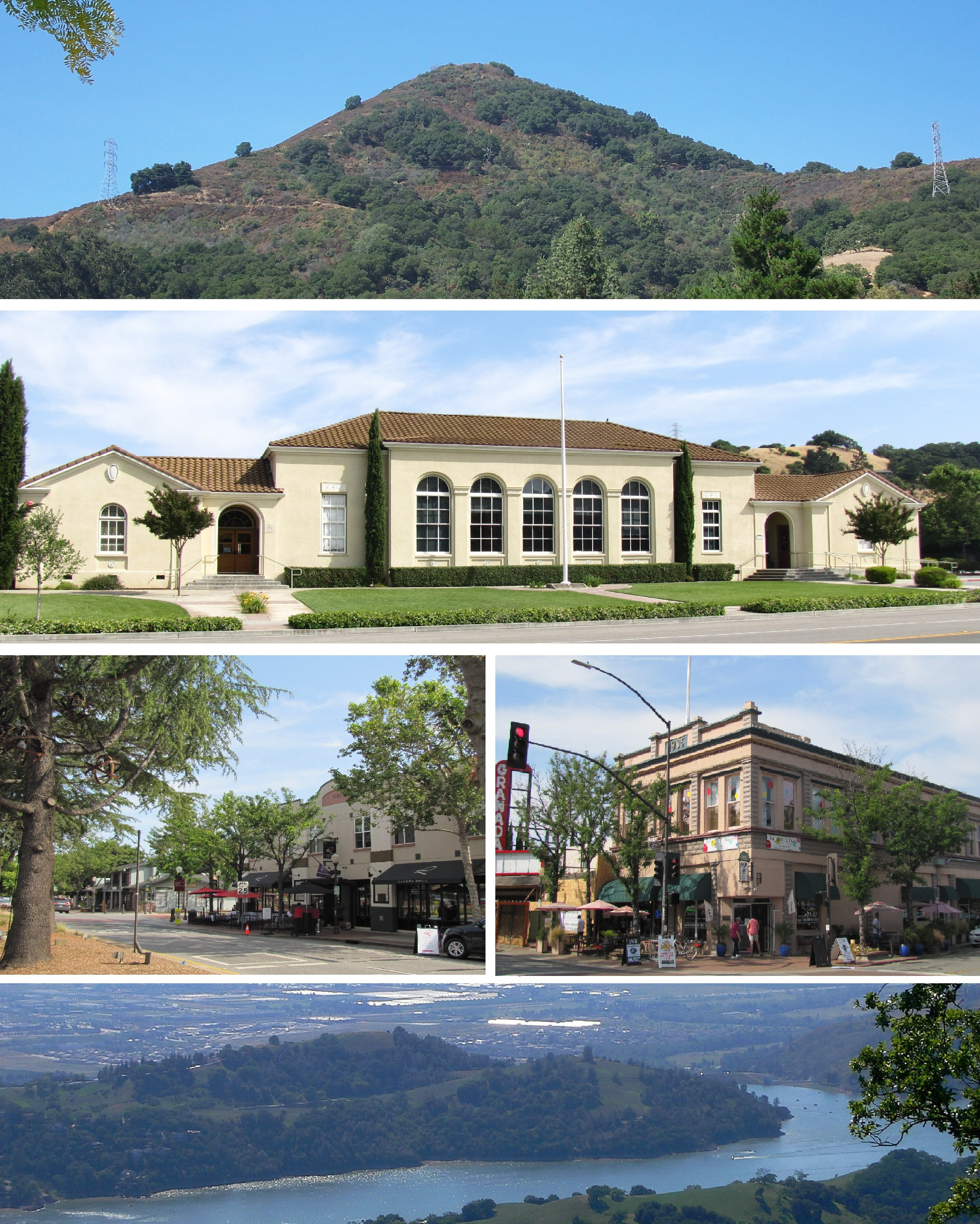 A montage of Morgan Hill, consisting of the following images